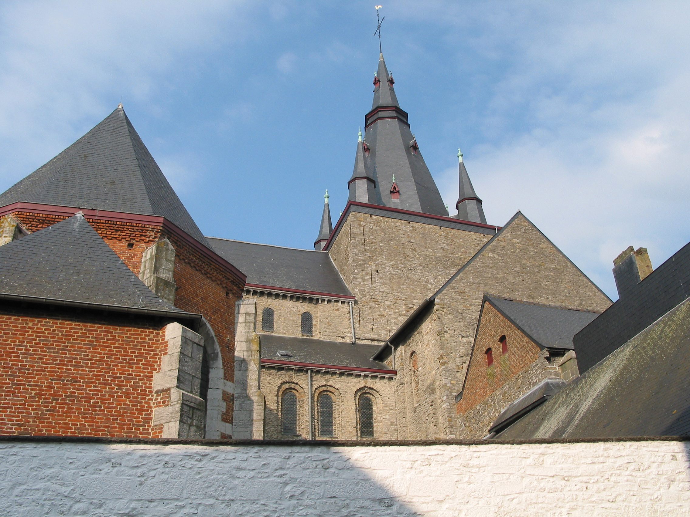 Soignies (Belgium), the Saint-Vincent collegiate church (Xth century). Walon: Sougnîye (Bèljike), li colèjiale Sint-Vincent (Xin.me sièke).